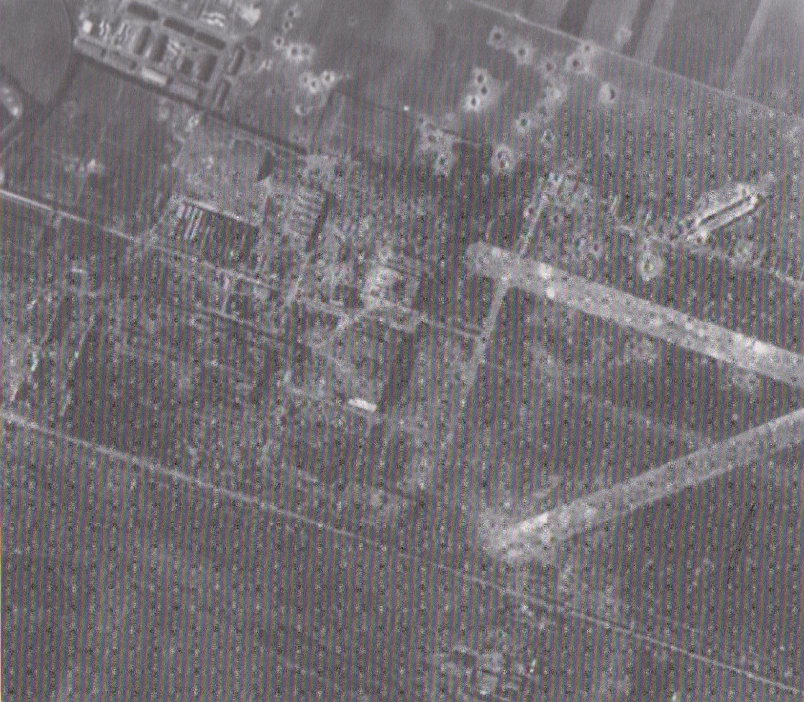 Oschersleben AGO after Air Raid